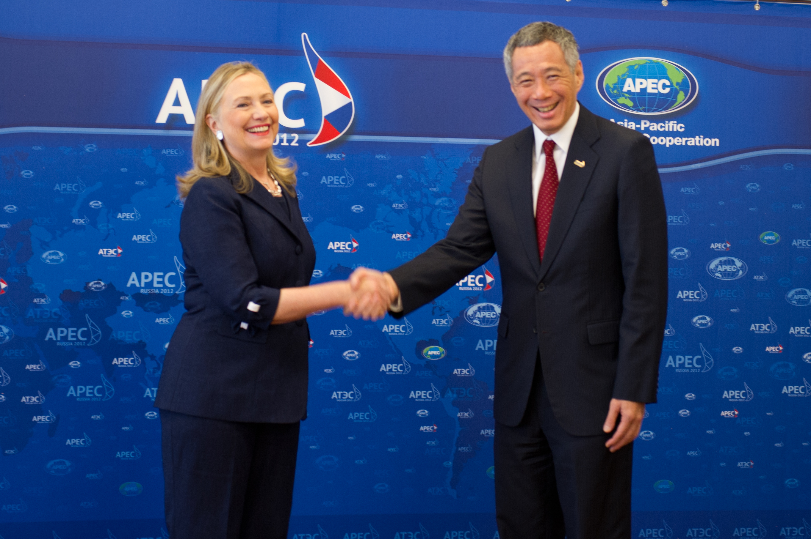 VLADIVOSTOK, Russia (September 8, 2012) U.S. Secretary of State Hillary Rodham Clinton greets Singapore's Prime Minister Lee Hsien Loong before their bilateral meeting during the Asia-Pacific Economic Cooperation Leaders' Week [State Department photo by William Ng/Public Domain]